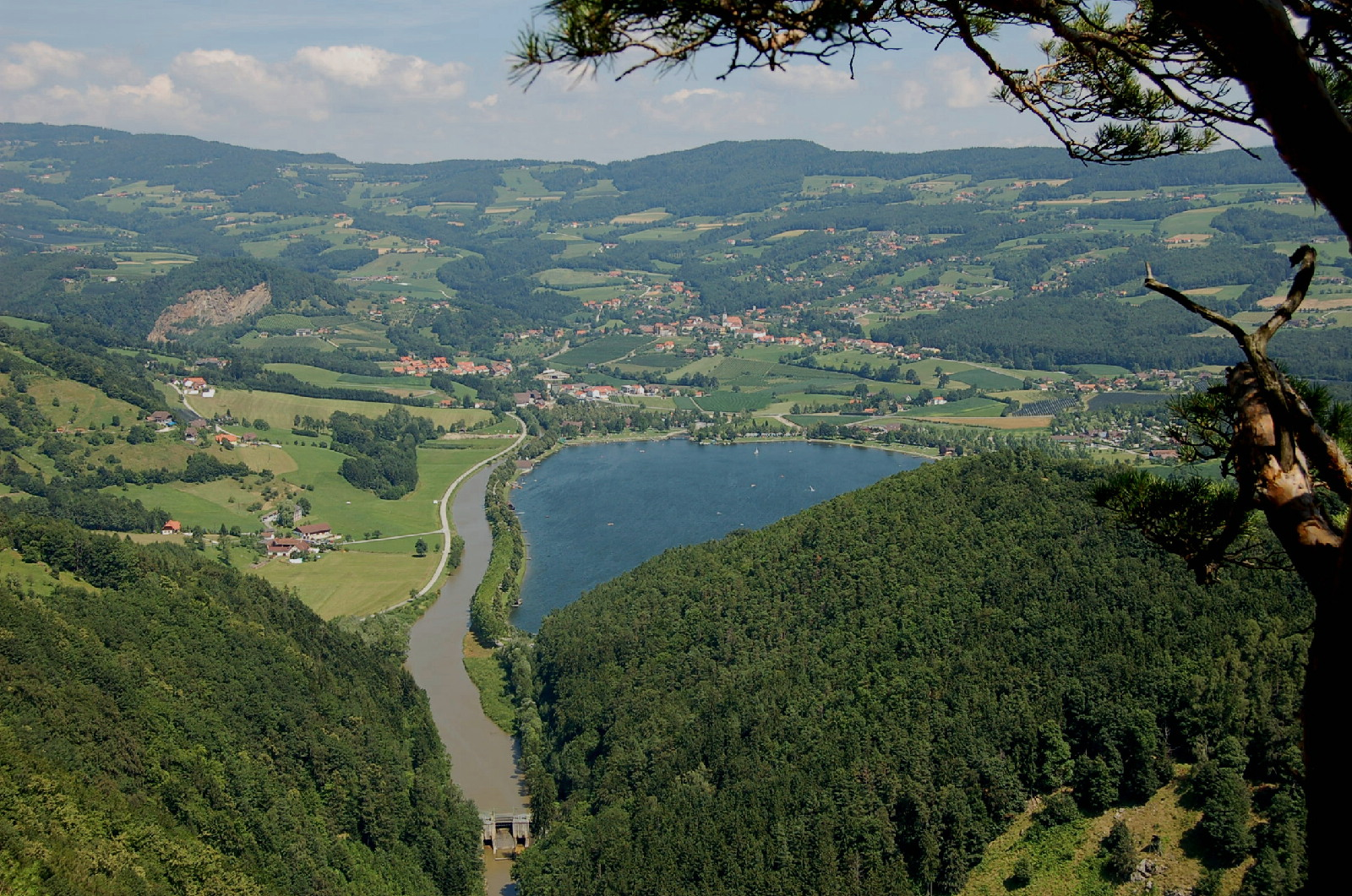 Stubenbergsee in Styria. View from Geierwand; left of the lake the river Feistritz can be seen.